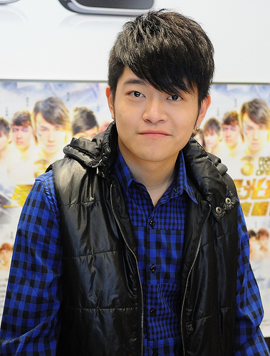 Taken in function